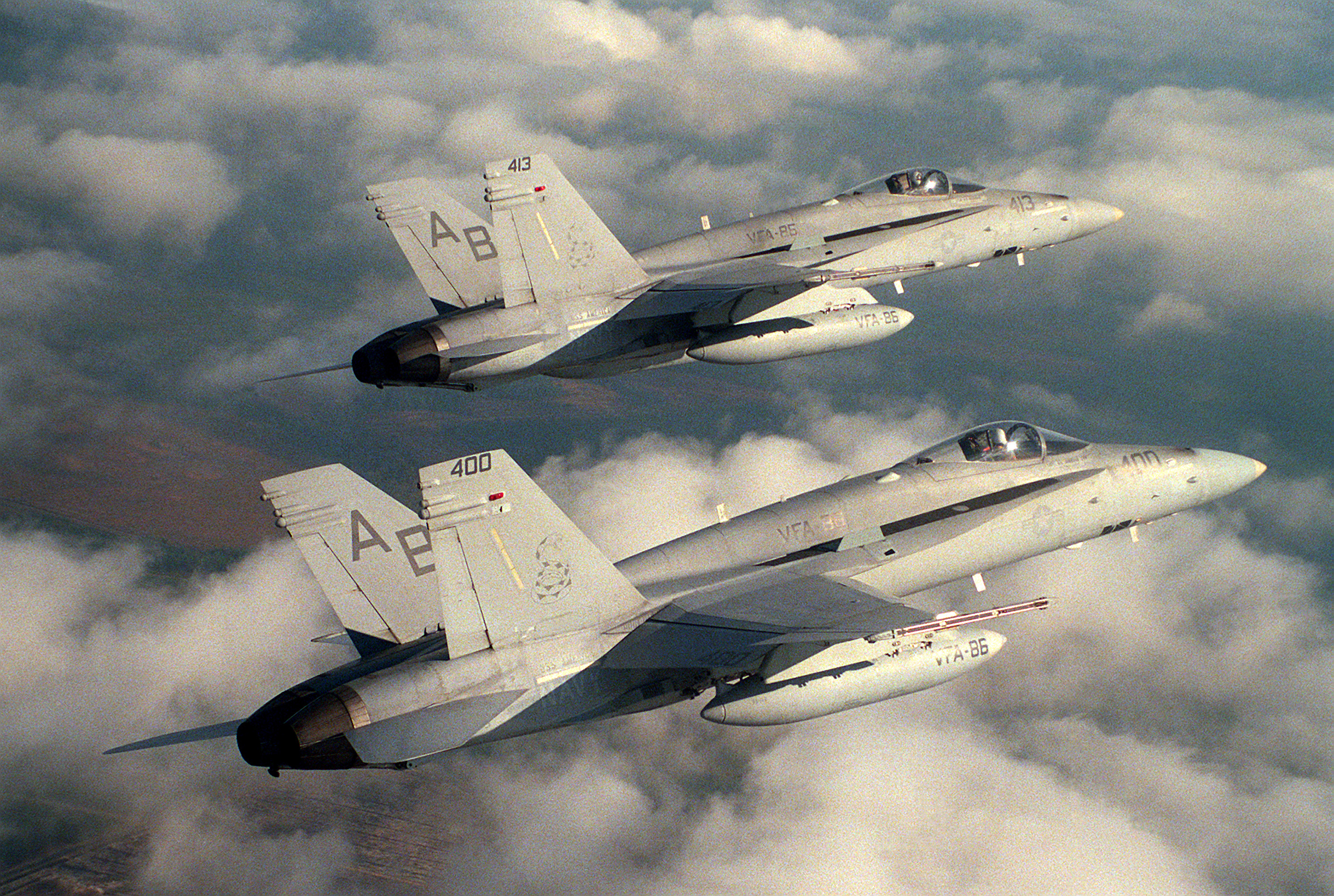 Two U.S. Navy McDonnell Douglas F/A-18C Hornet fighters from strike fighter squadron VFA-86 Sidewinders in flight over Townsend Bombing Range in McIntosh County, Georgia (USA), on 26 January 1989. VFA-86 was assigned to Carrier Air Wing 1 (CVW-1) aboard the aircraft carrier USS America (CV-66).